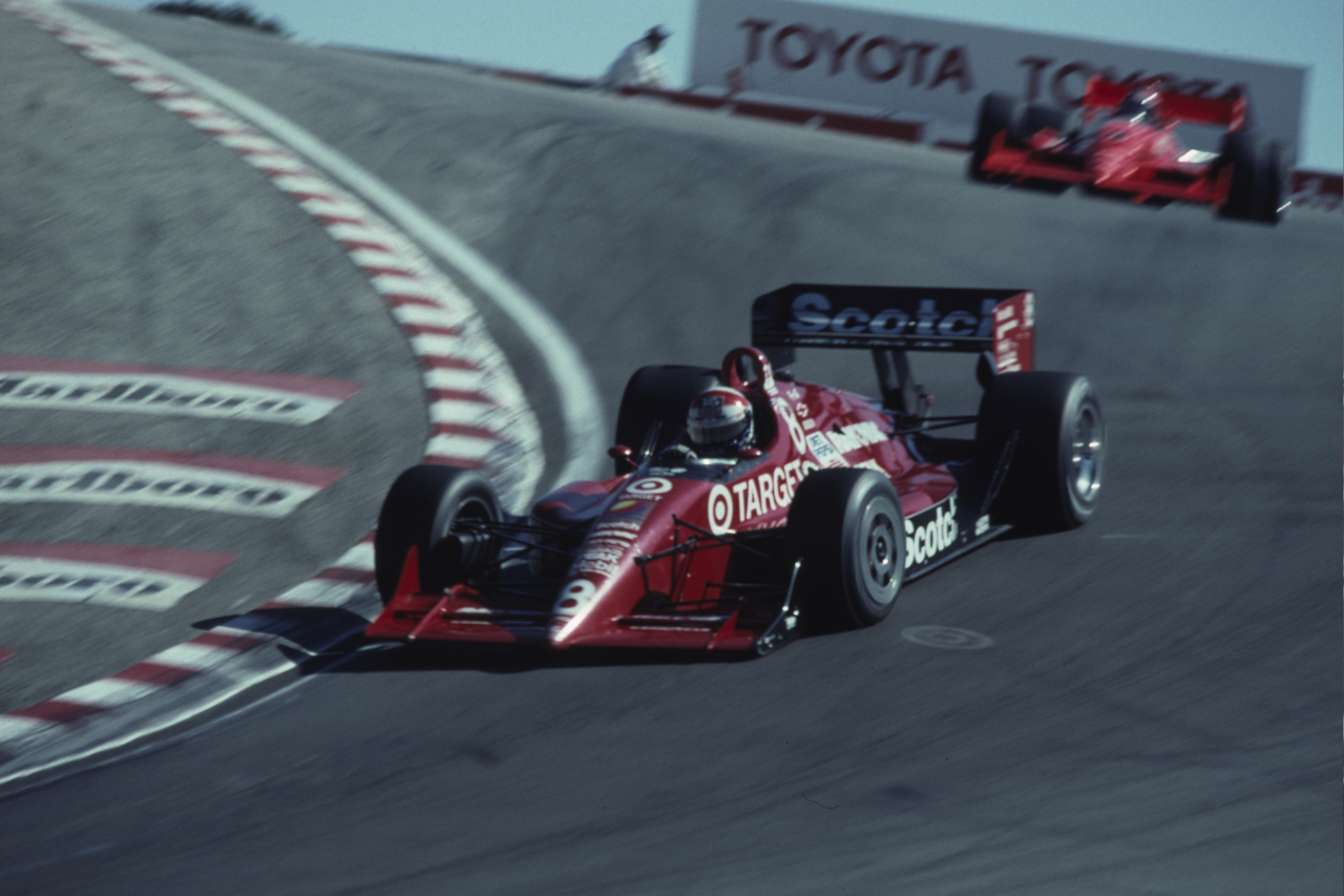 Eddie Cheever driving at Laguna Seca in 1991. Shot on Kodachrome 64.